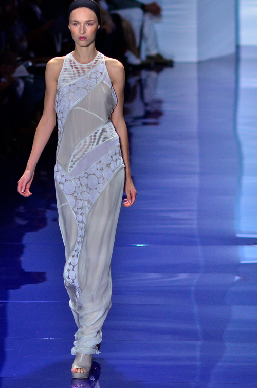 A model walks the runway at the Vera Wang Spring/Summer 2014 show at New York Fashion Week, September 2013.